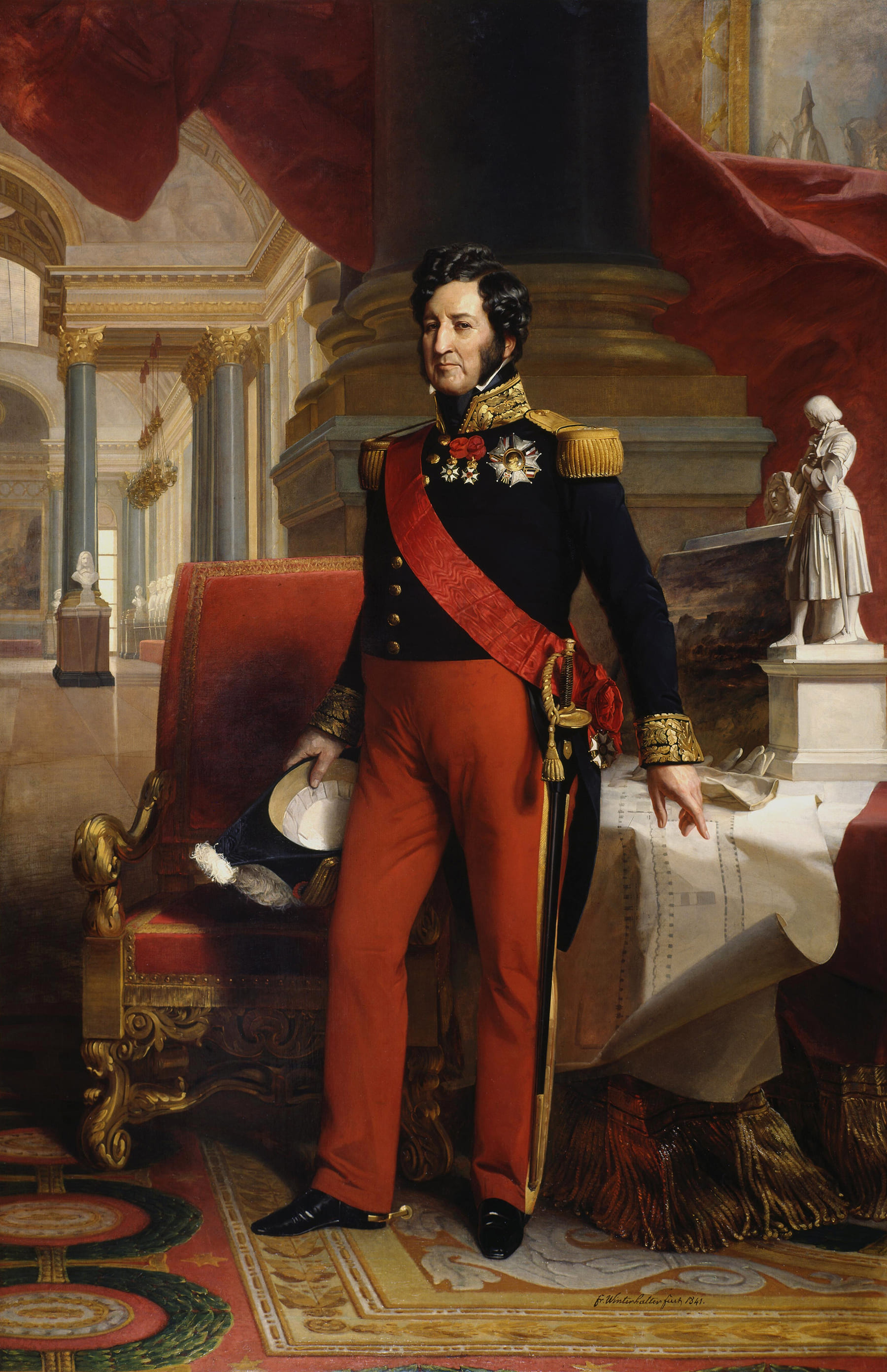 Louis-Philippe, King of France from 1830 to 1848 (July Monarchy)